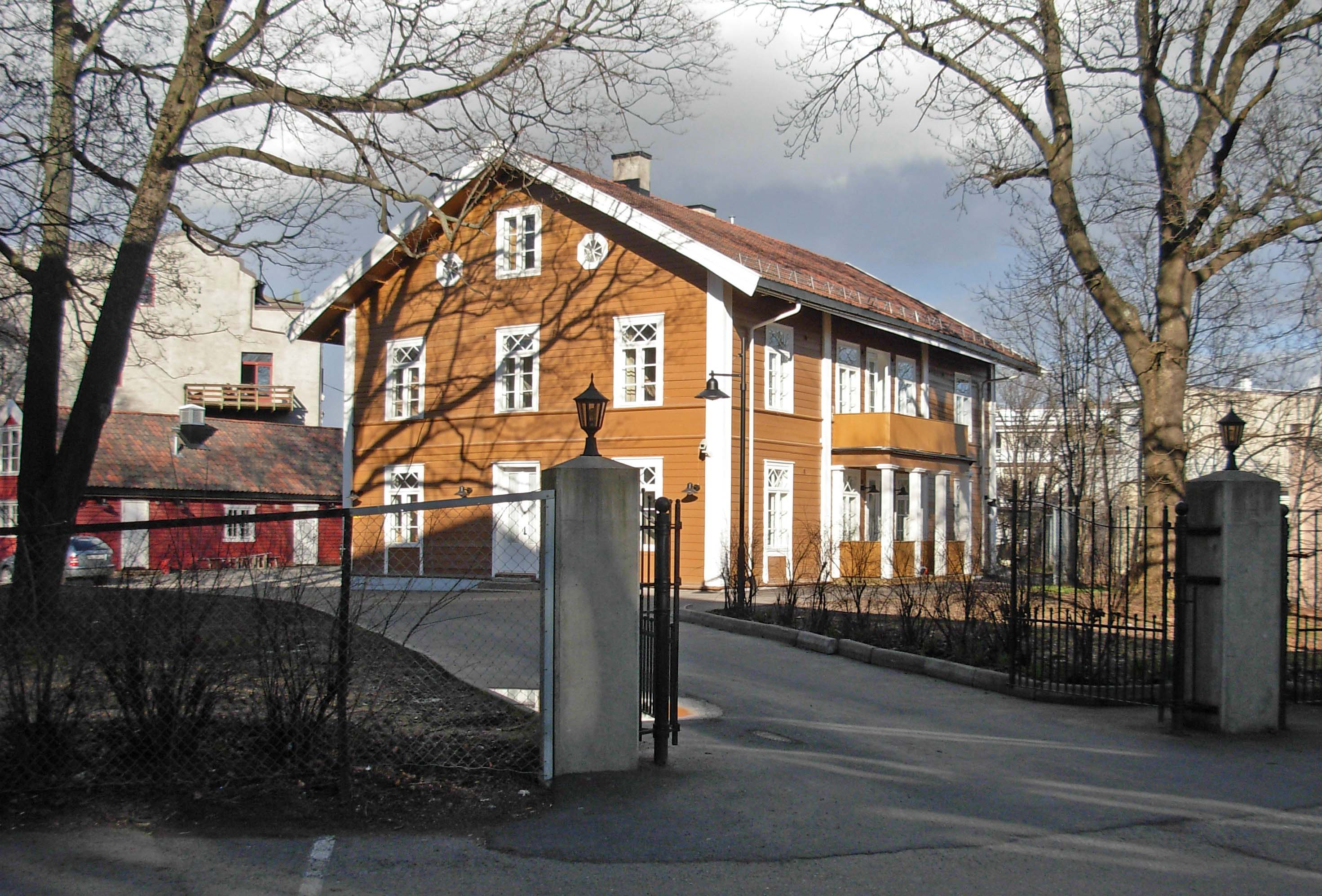 Lassonløkken, Grønnegata 19, Oslo, built by Thomas Heftye, mid 1800